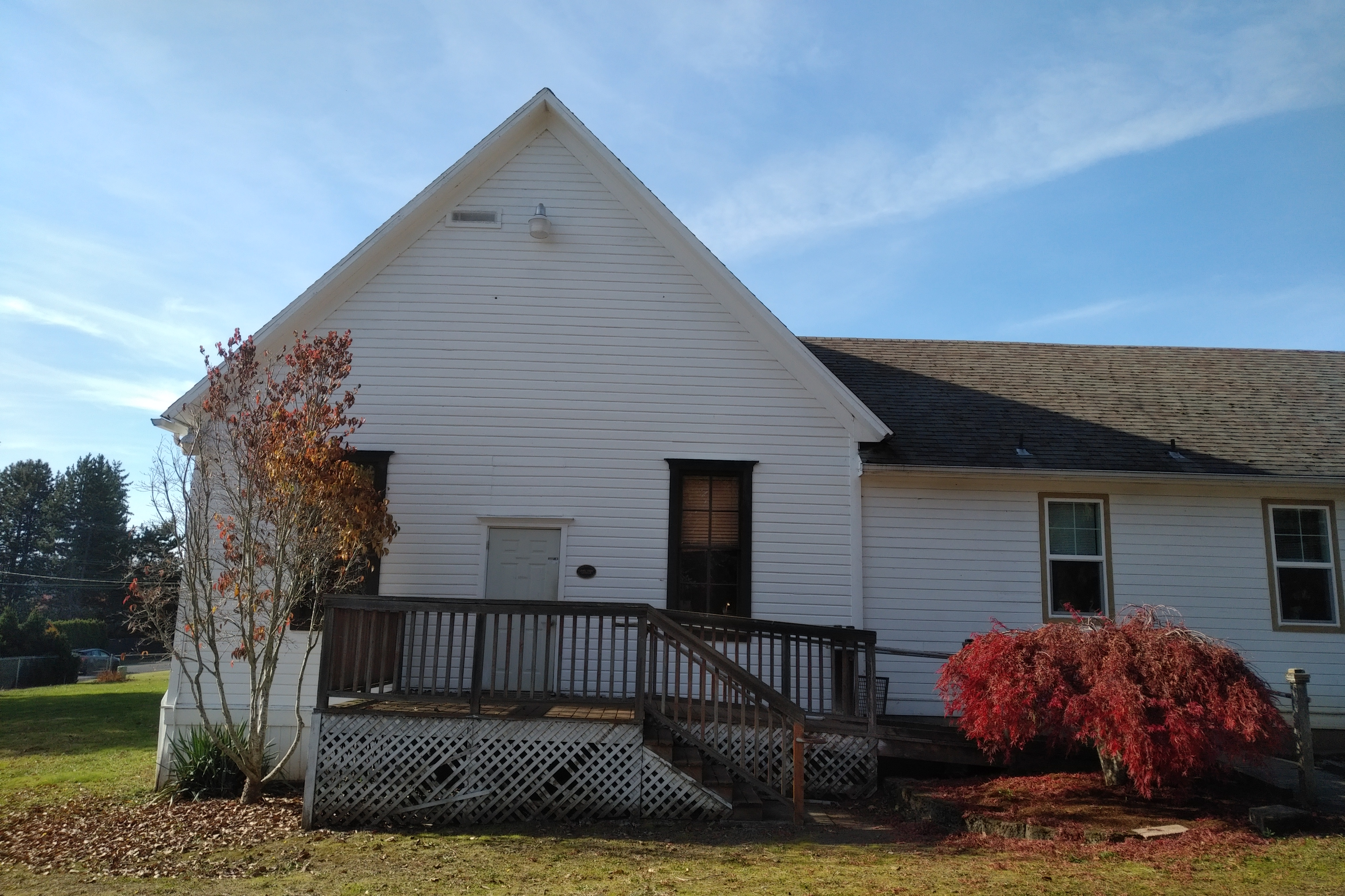 Kelso Schoolhouse, now known as Sandy Grange, in Boring, Oregon, United States.